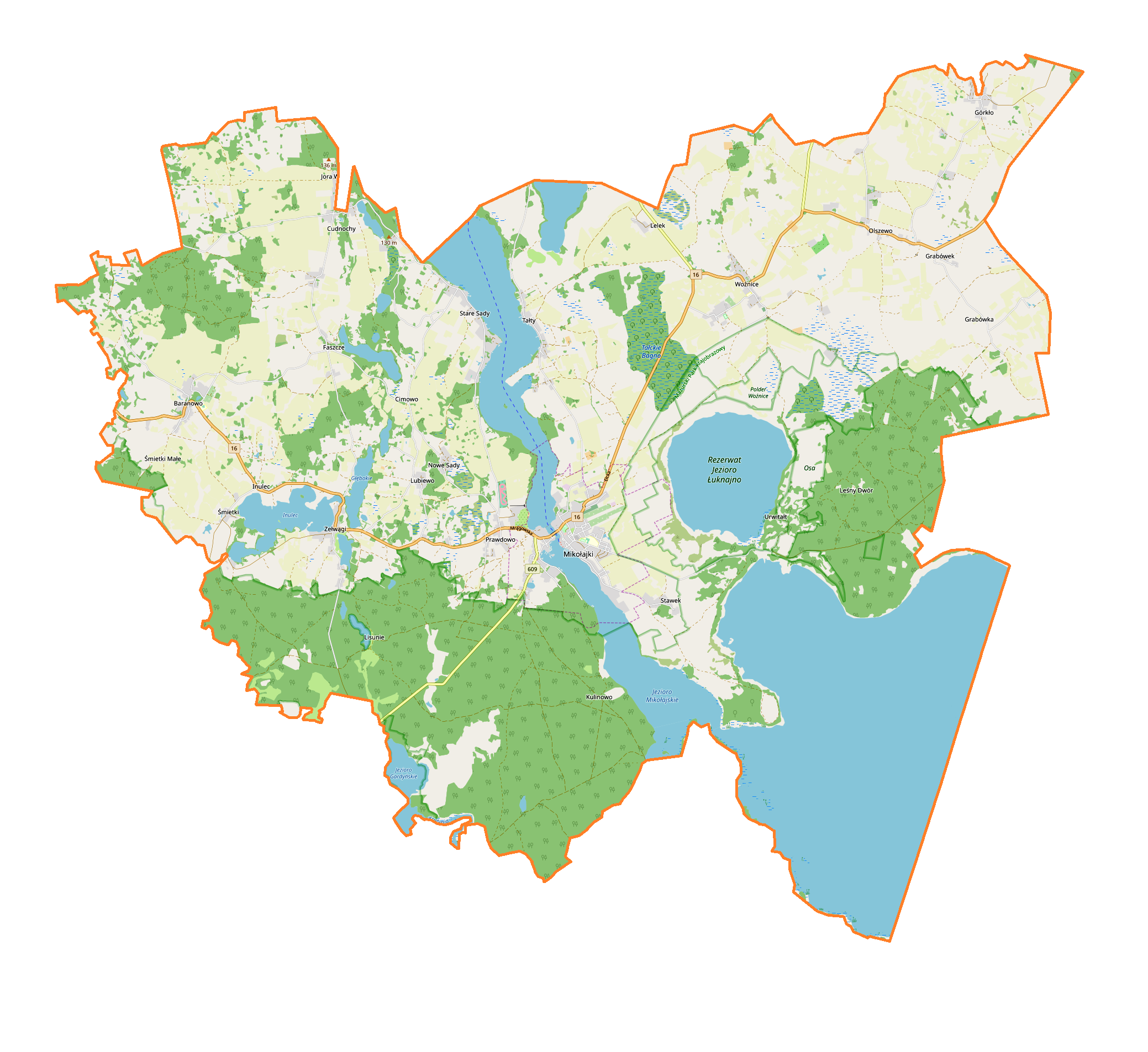 Location map